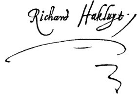 Manuscript signature of Richard Hakluyt from the dedication of his work Divers Voyages Touching the Discoverie of America and the Ilands Adjacent unto the Same, Made First of All by Our Englishmen and Afterwards by the Frenchmen and Britons: With Two Mappes Annexed Hereunto (London: [Thomas Dawson] for T. Woodcocke, 1582).